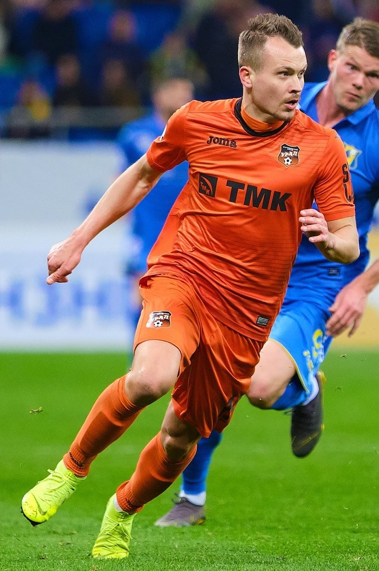 Dzyanis Palyakow with FC Ural Yekaterinburg in a game against FC Rostov.